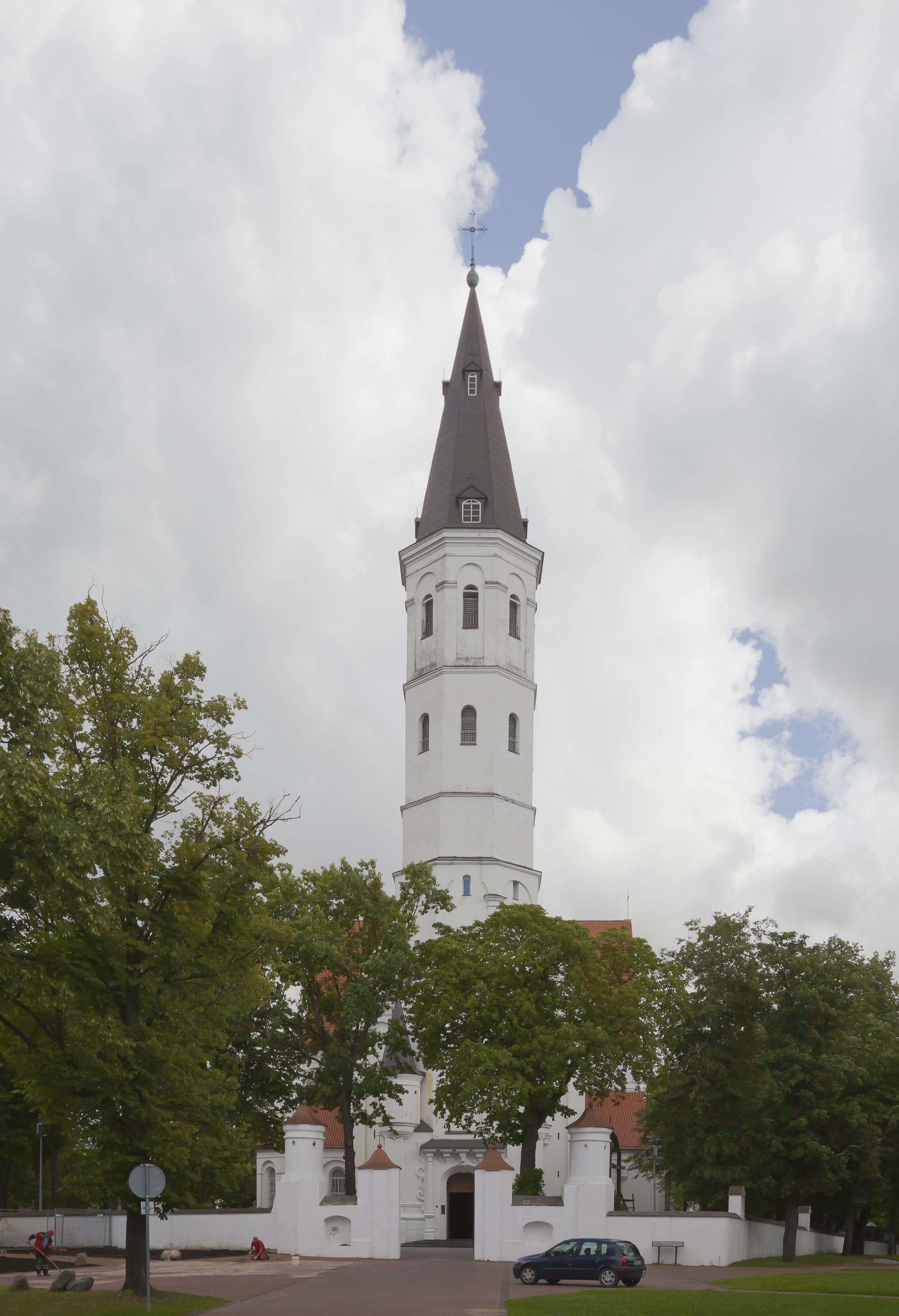 Siauliai Cathedral, Lithuania